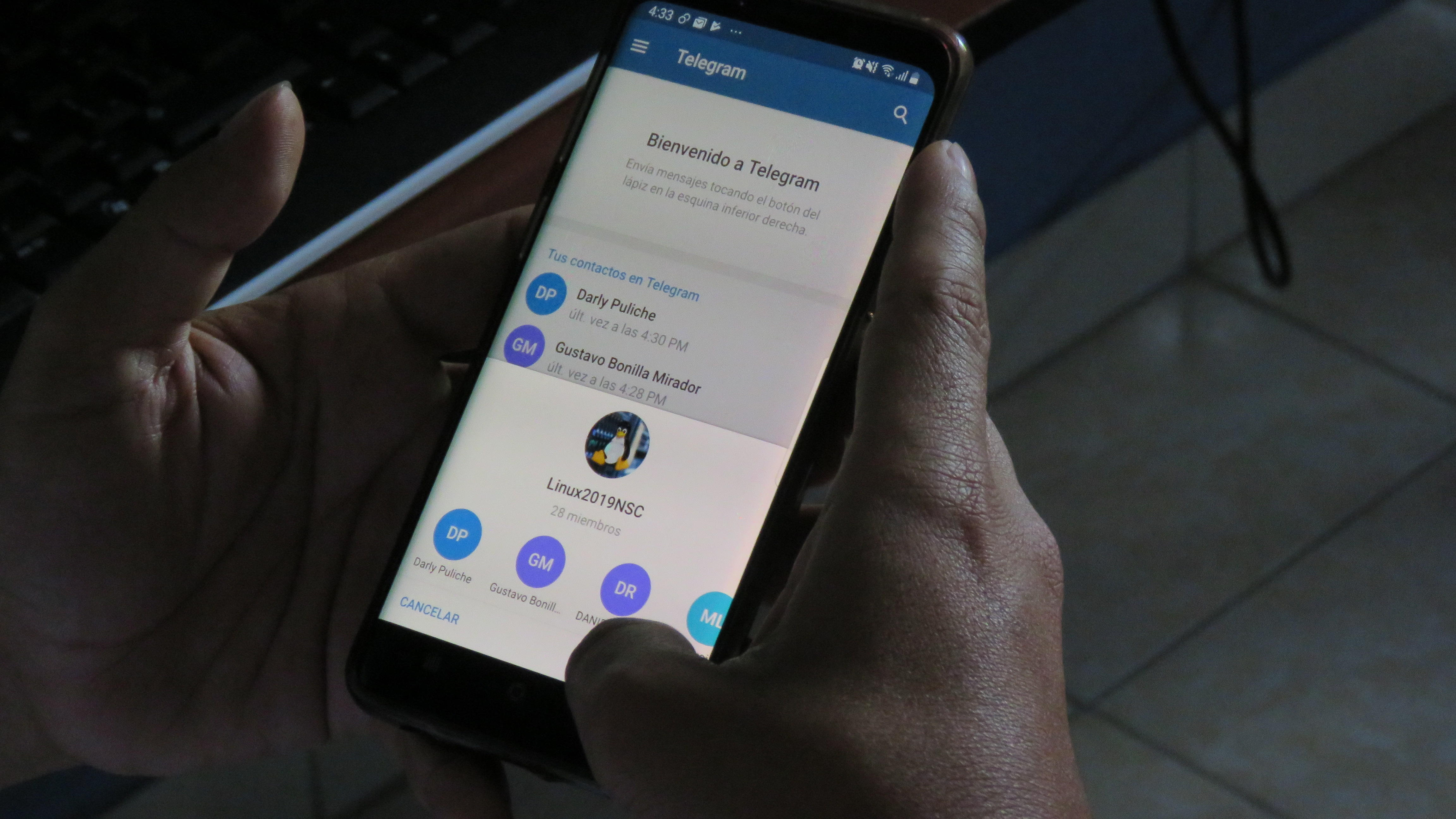 A person using Telegram.